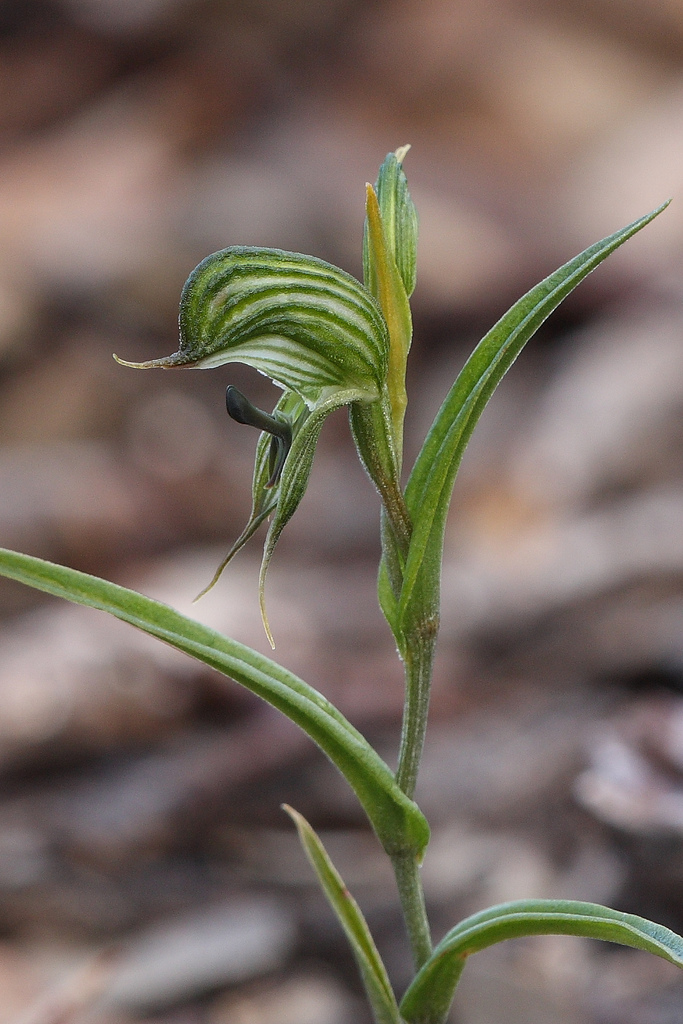 Pterostylis sargentii. Found in the Williams Narrogin area